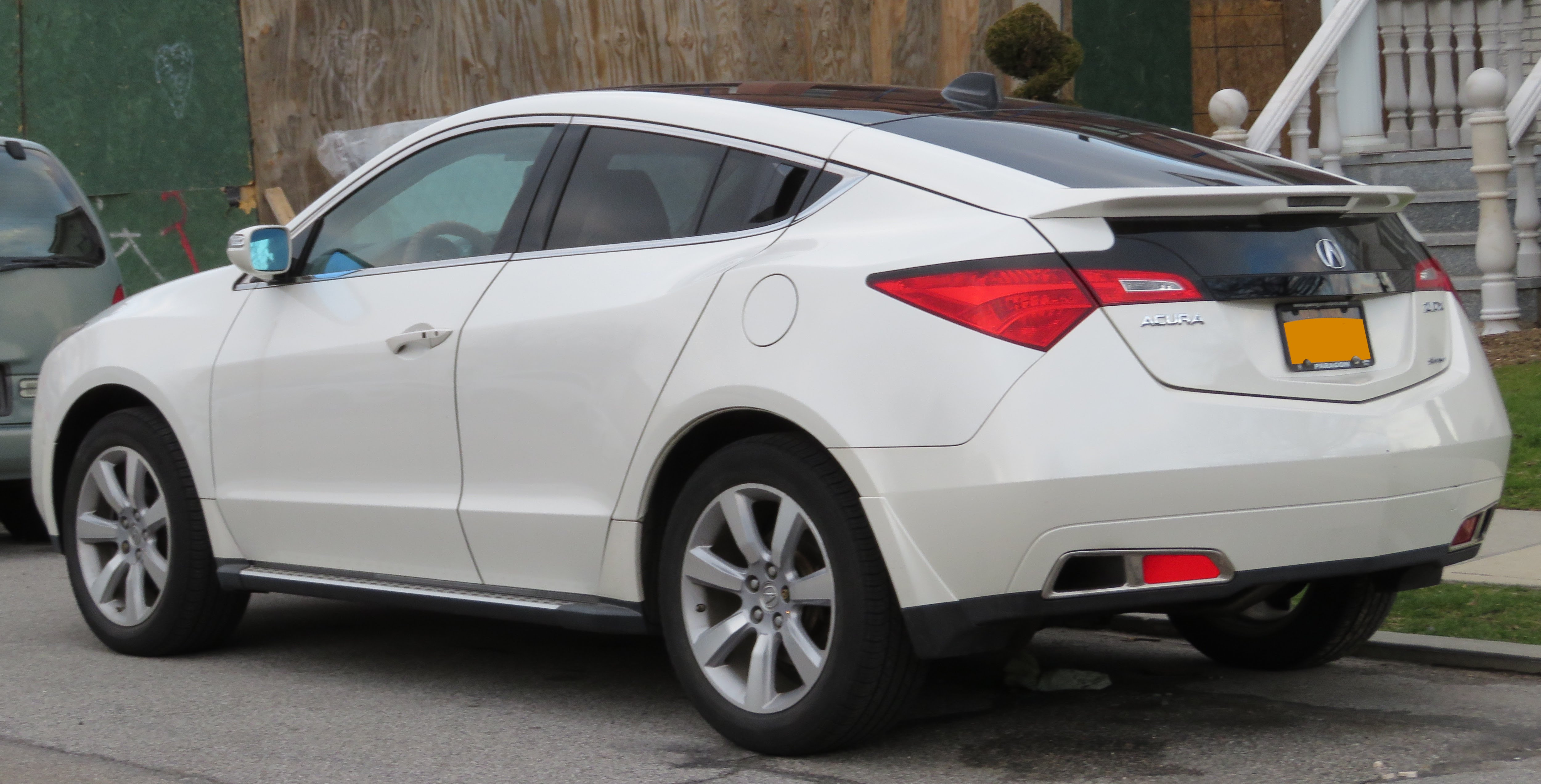 In Queens, New York